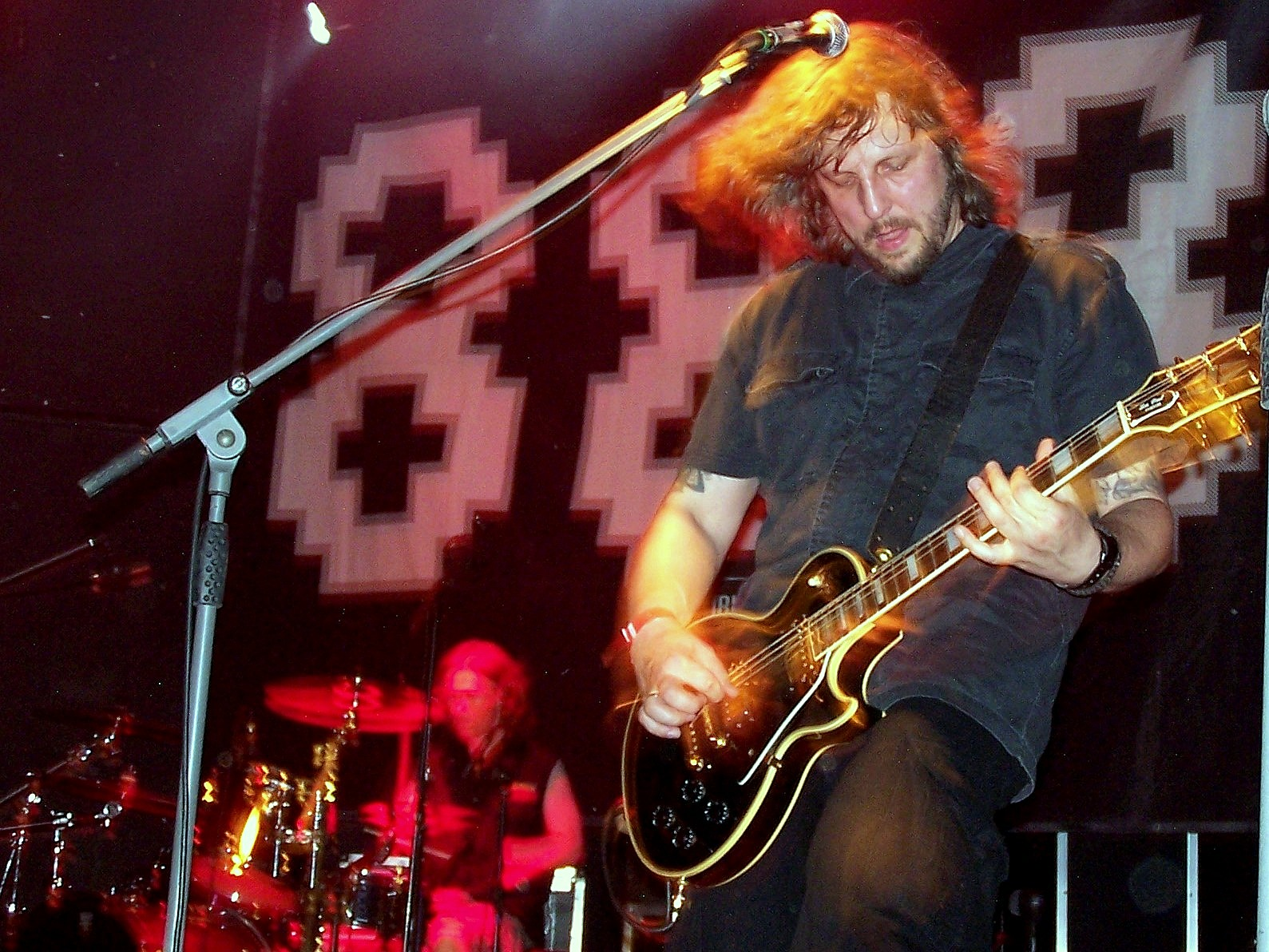 Robert Friedrich during the concert of 2Tm2,3 in Cracow, 2007 May 14